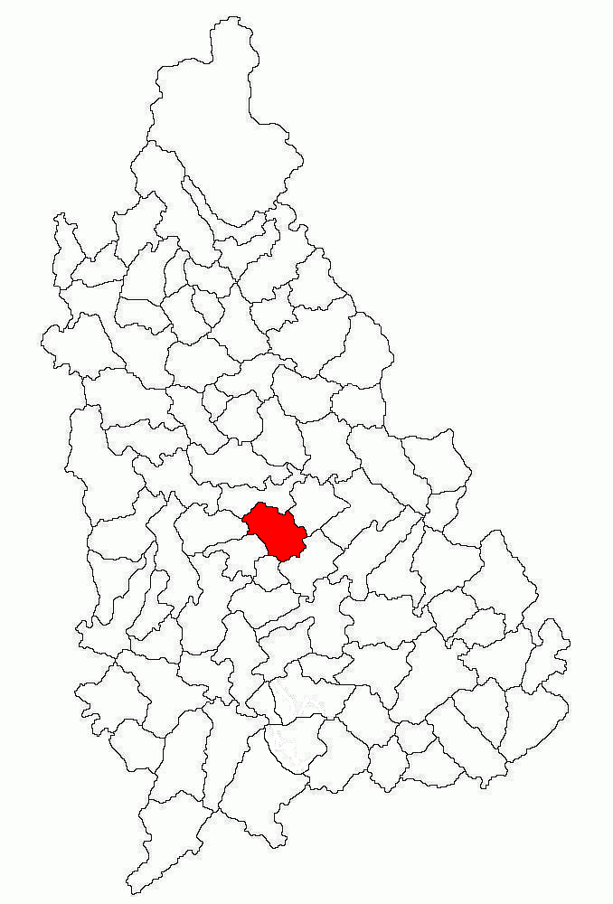 Location map of Vacaresti Commune in Dambovita County, Romania